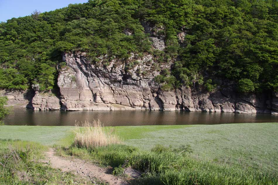 Ulsan Bangudae Petroglyphs.